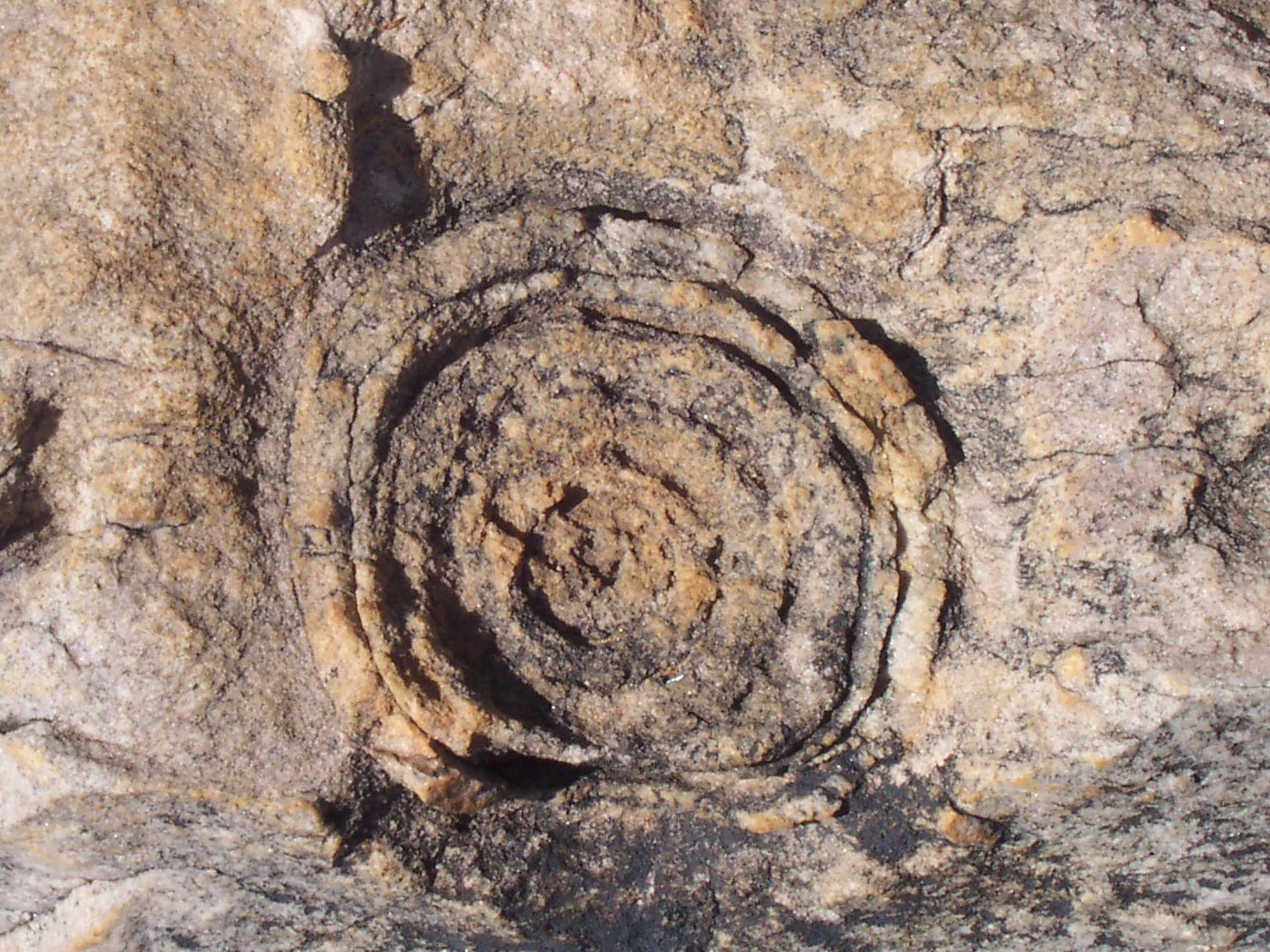 A desert rose in Lanner Gorge, in the Pafuri region of the Kruger Park, South Africa.